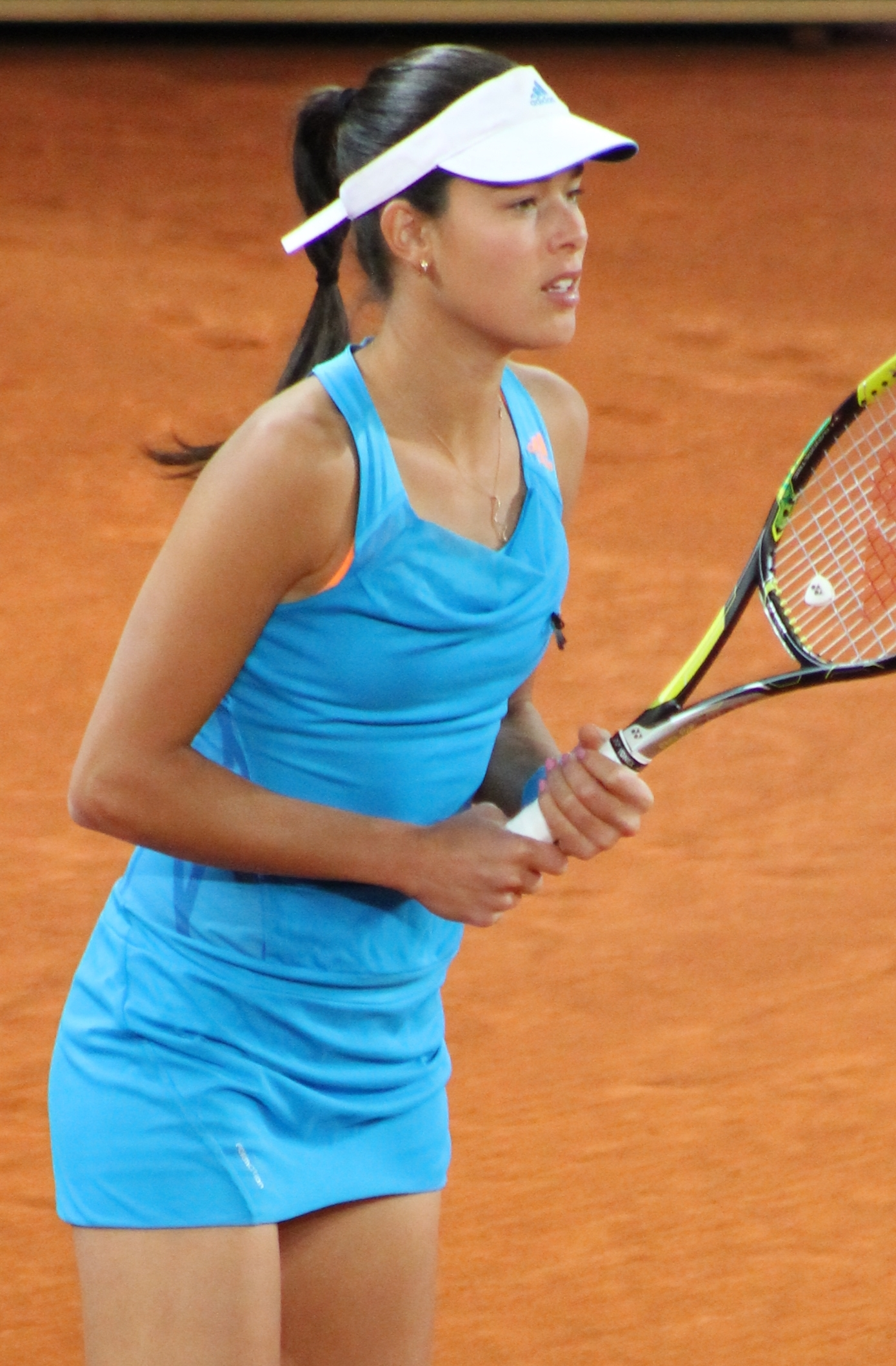 Ivanovic MA14 (17) - Copy